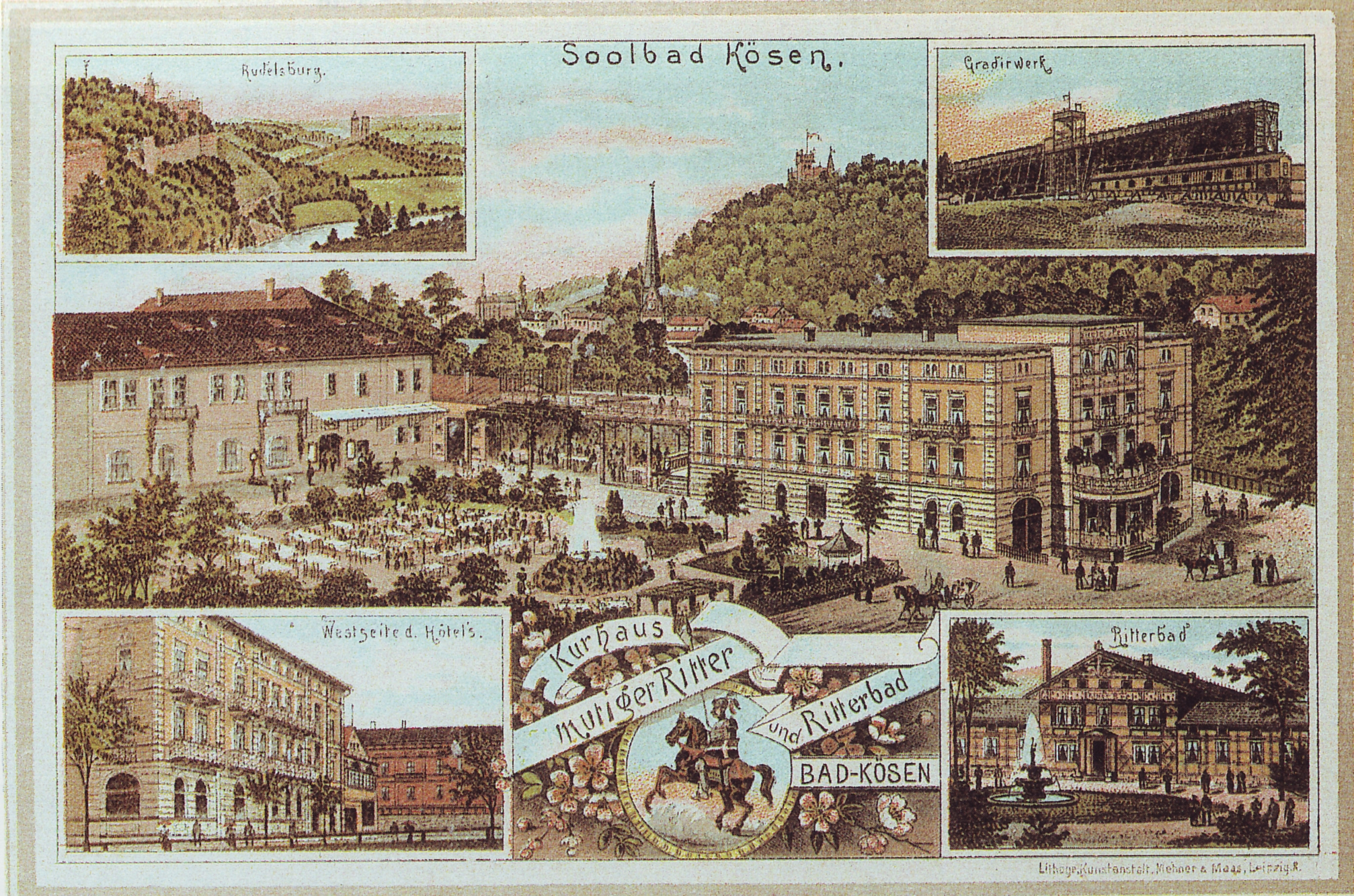 Ansicht der Stadt (bad) Kösen im Jahr 1895. Im Zentrum das historische Hotel Mutiger Ritter (links) mit dem 1916 abgebrannten Gästehaus (rechts). Der Wandelgang zwischen den beiden Bauteilen des Mutigen Ritter wurde